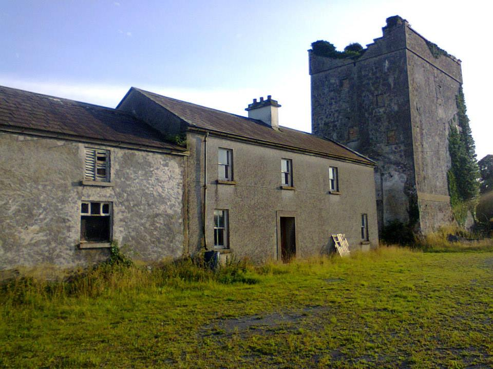 Monivea Castle from the north east. The building to the right is the original Anglo-Norman tower house, while the main part of the later mansion, which was located to the north, south and west and was destroyed in the early 20th century, was built onto it (photograph taken 2013)